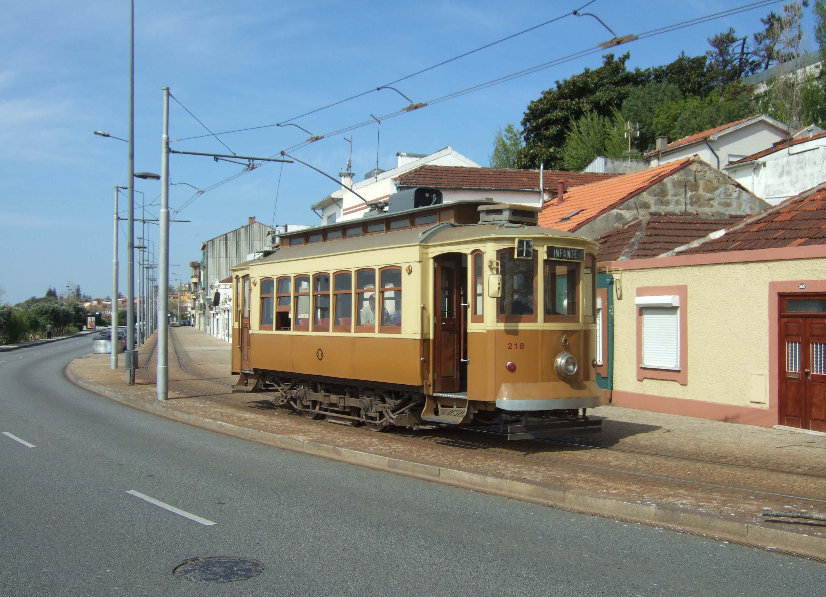 Porto tram 218 eastbound on Rua das Sobreiras, bound for Infante. Car 218 was built in Porto sometime between 1938 and 1945 by CCFP (predecessor of STCP), based roughly on 1912 Brill designs.